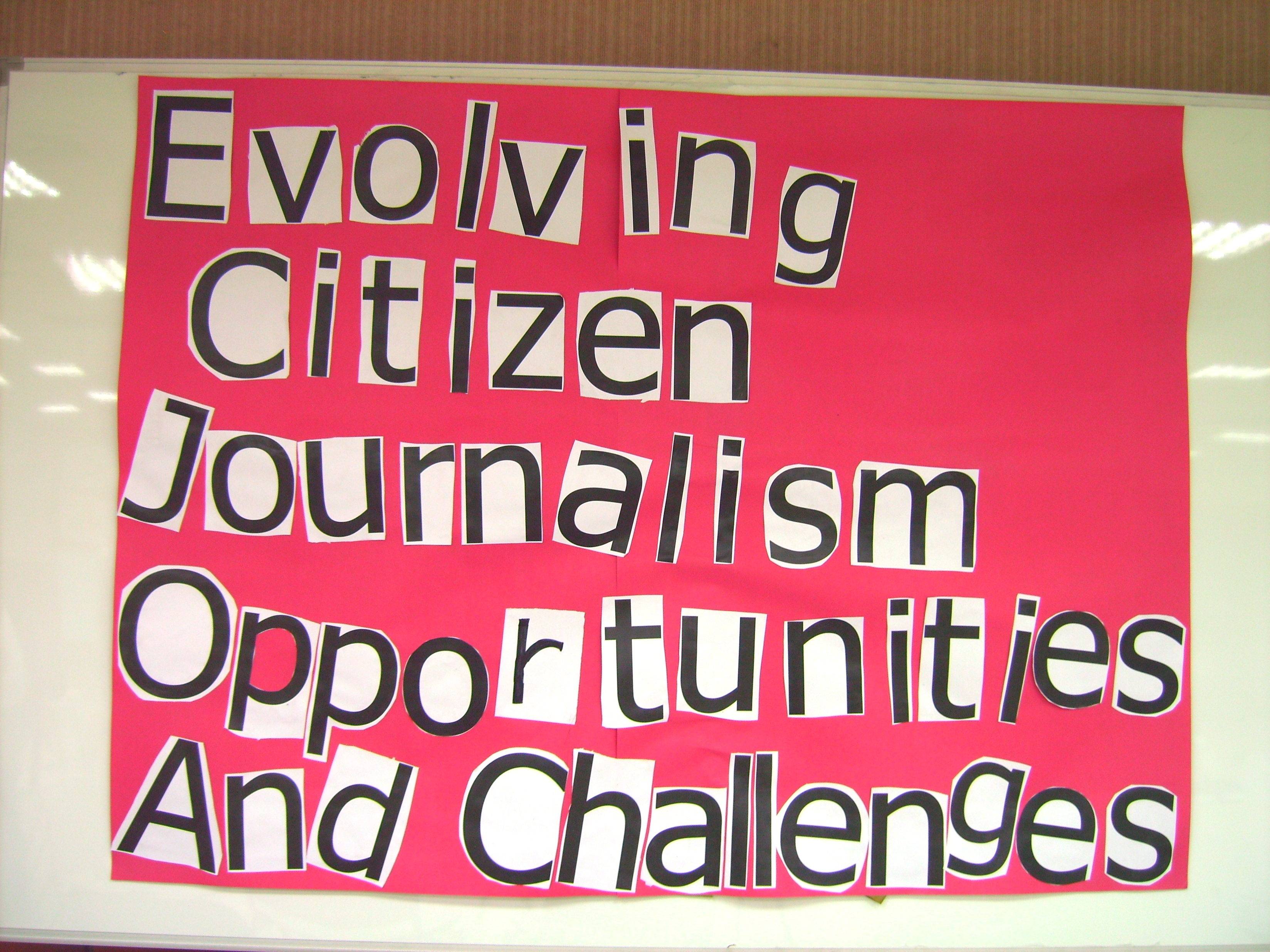 A poster wrote with "Evolving Citizen Journalism Opportunities And Challenges" at 2007 Citizen Journalism Unconference.